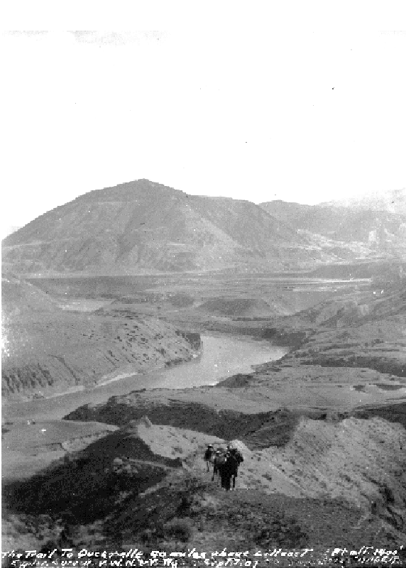 This image was taken by British Columbia government surveyor Frank Swannell in 1901 at 40 Mile, which is a locality in the area of French Bar Creek where it meets the Fraser River, at that distance up the River Trail from Lillooet, looking northwards up the river towards Big Bar. The mountain in the centre-background is Big Bar Mountain, near Kostering.